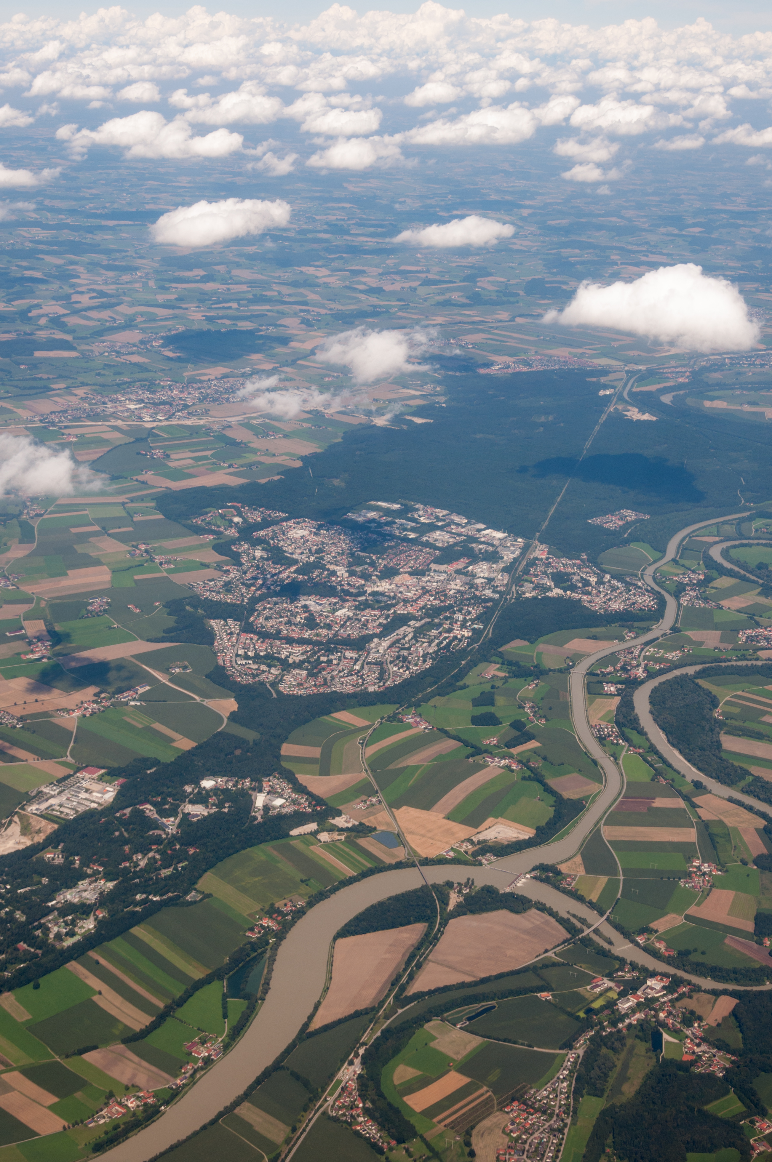 Germany, aerial impressions between Belgrade and Munich